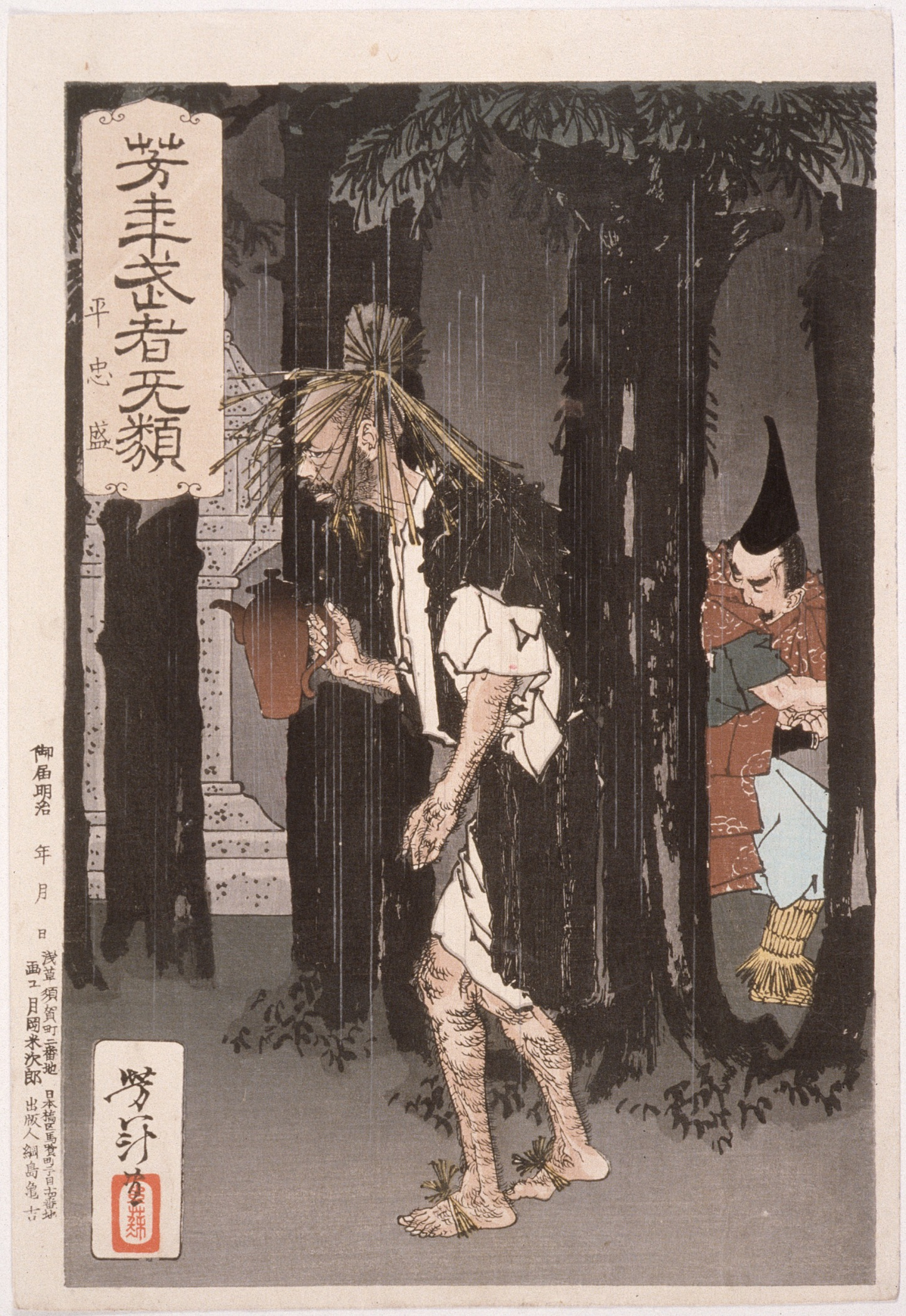 Japan, 1885 Series: Yoshitoshi's Warriors Trembling with Courage Prints; woodcuts Color woodblock print Herbert R. Cole Collection (M.84.31.91) Japanese Art 平忠盛が白河上皇の側室通いにお供したとき、暗闇に怪しく光るものがあり、鬼か妖怪かと組み伏せてみたところ、油壺を手にした老いた法師が灯篭に火をともして回っているところだった、という平家物語の一場面を描いたもの。上皇は忠盛の冷静さに感激して側室を忠盛に下賜、側室は妊娠し、平清盛を産んだ。 Taira no Tadamori(1096-1153) found something lighting strangely in the dark at night. He thought it might be Yokai or something, but actually it was an old monk who was lighting the stone lanterns with his oil pot. From The tale of Heike.